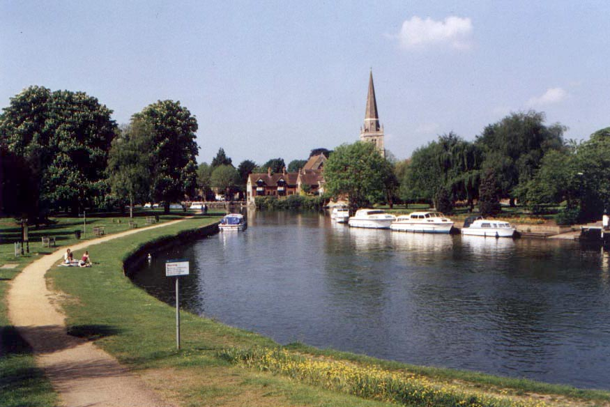 The River Thames at Abingdon, Oxfordshire. Taken by D.J. Clayworth. St Helen's church is visible.